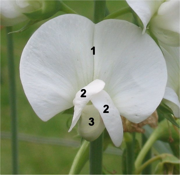 Lathyrus flower with numbers